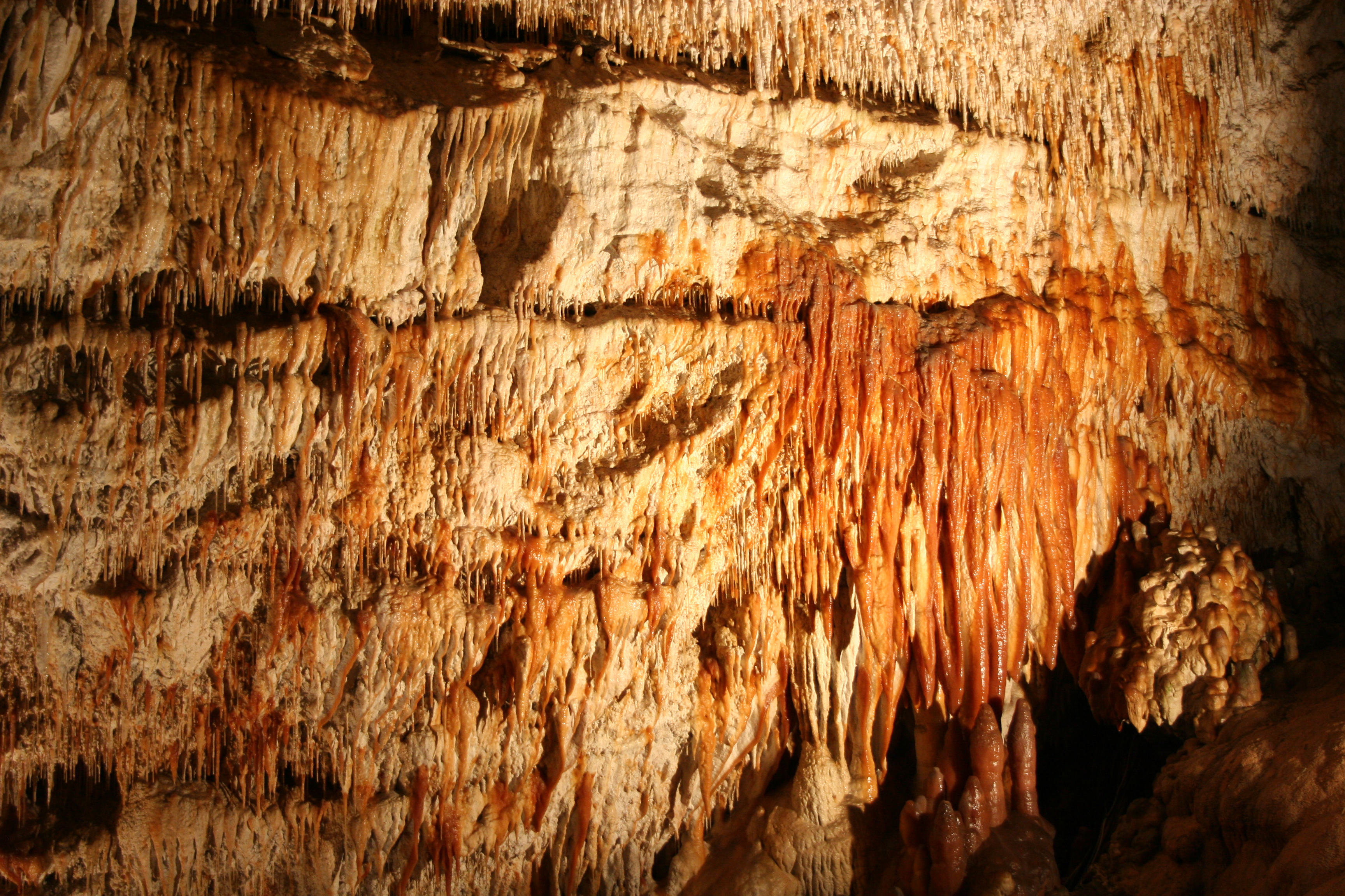 Demänová Cave of Freedom (Demänovská jaskyňa Slobody), Slovakia. Taking this photo was made possible through the financial support of Wikimedia Polska.